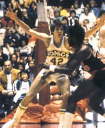 Supersonics basketball game; City Light slides [1]